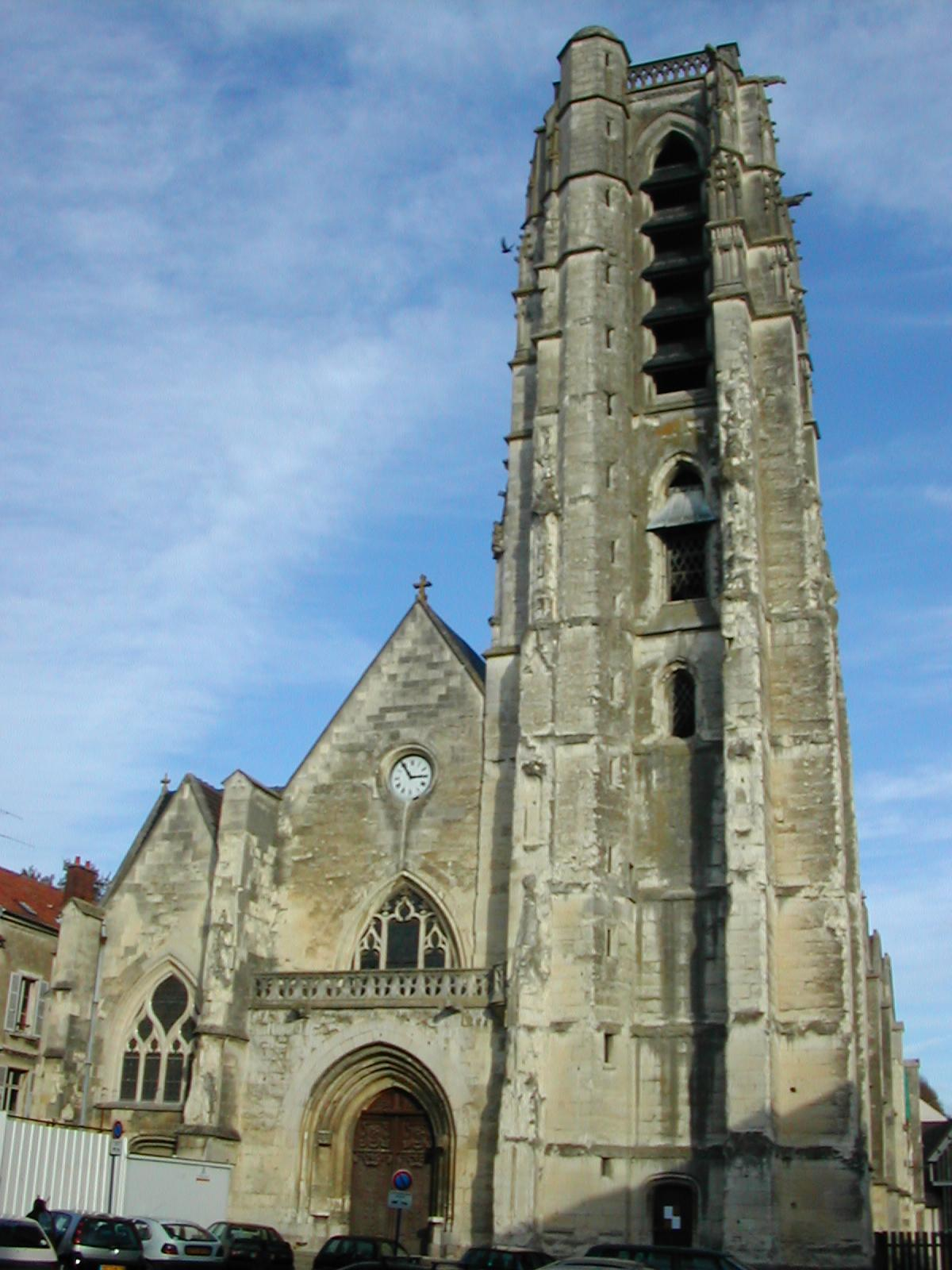 Église Saint Crépin. Taken at Château-Thierry (Aisne), with a Nikon Coolpix 775.